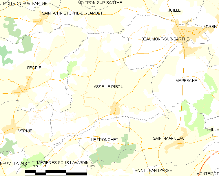 Map of French municipality